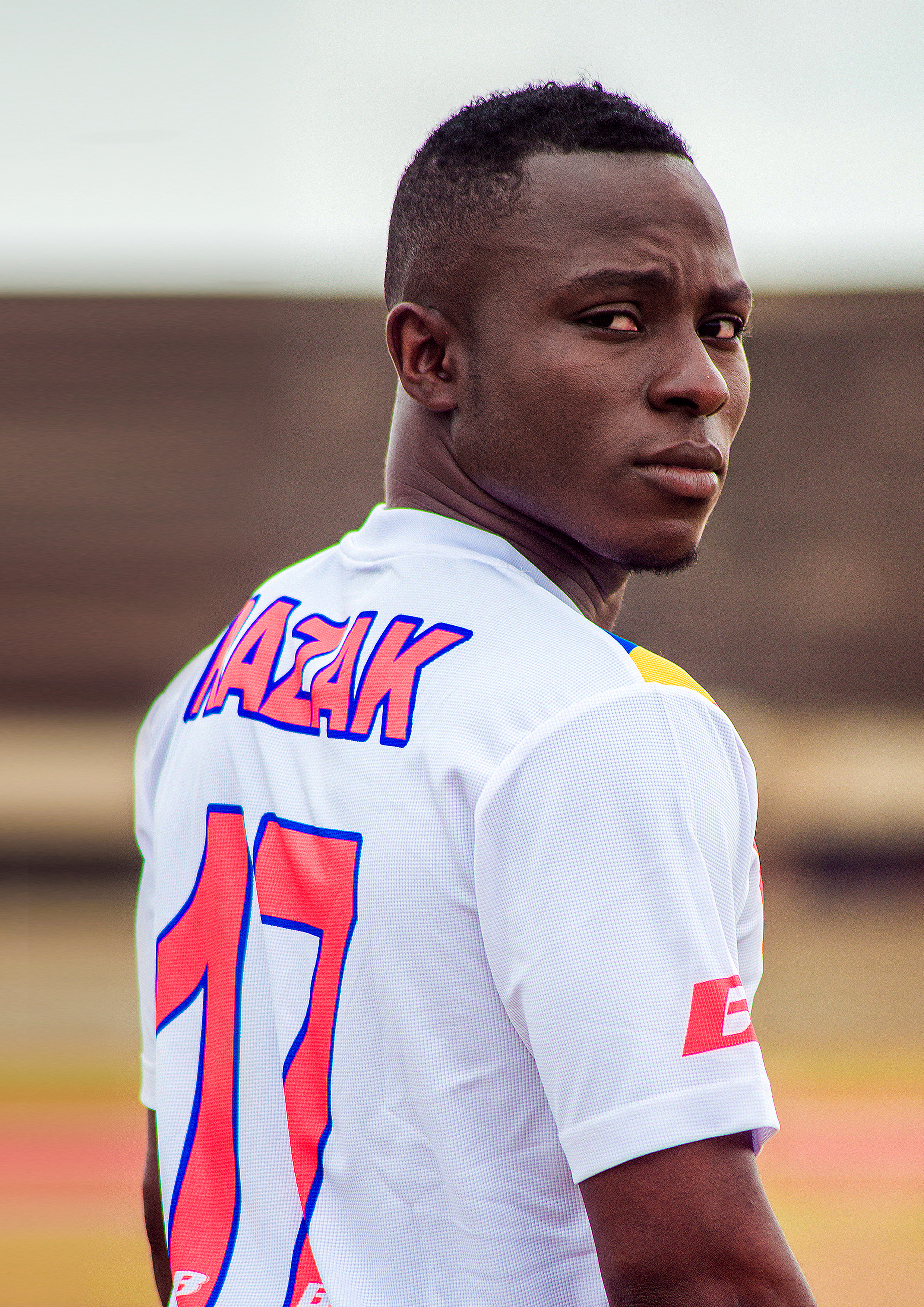 Patrick Razak, a Ghana and Hearts of Oak player.